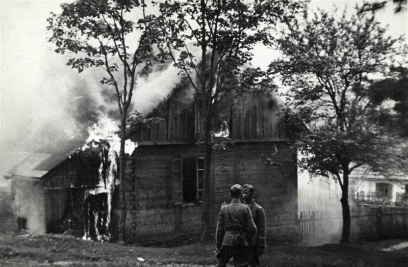 Polish village Michniów burned by German gendarmerie. On 12-13 July 1943 German occupants completely destroyed Michniów and massacred 204 its inhabitants.